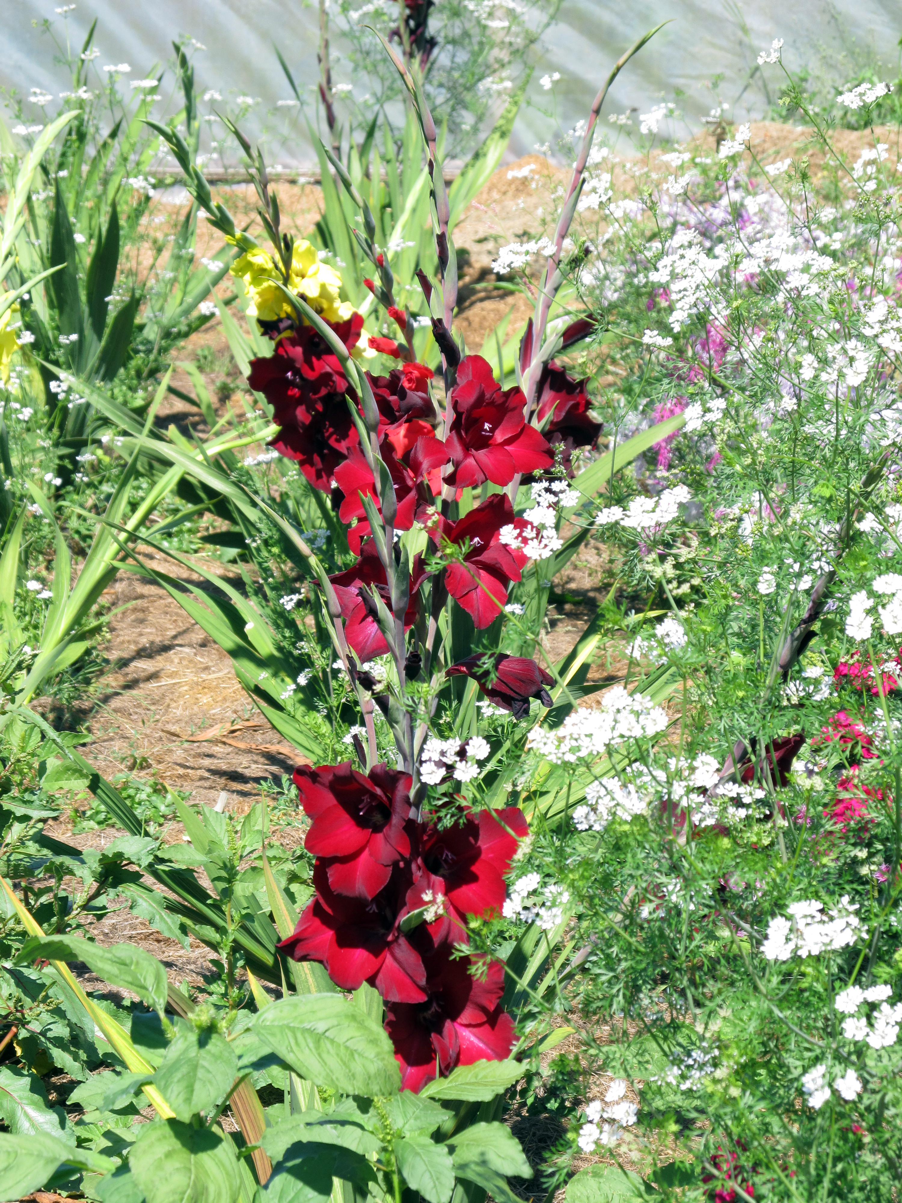 Gladiolas are tall, showy flowers that are a real standout.